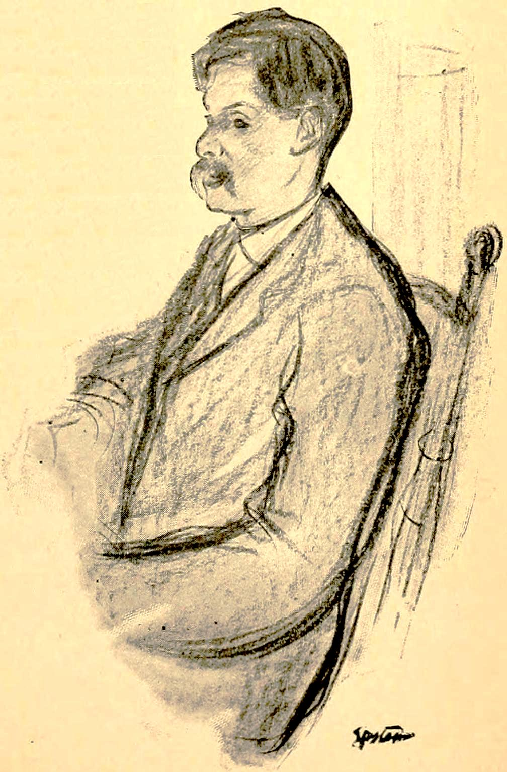 From :The spirit of the Ghetto; studies of the Jewish quarter in New York